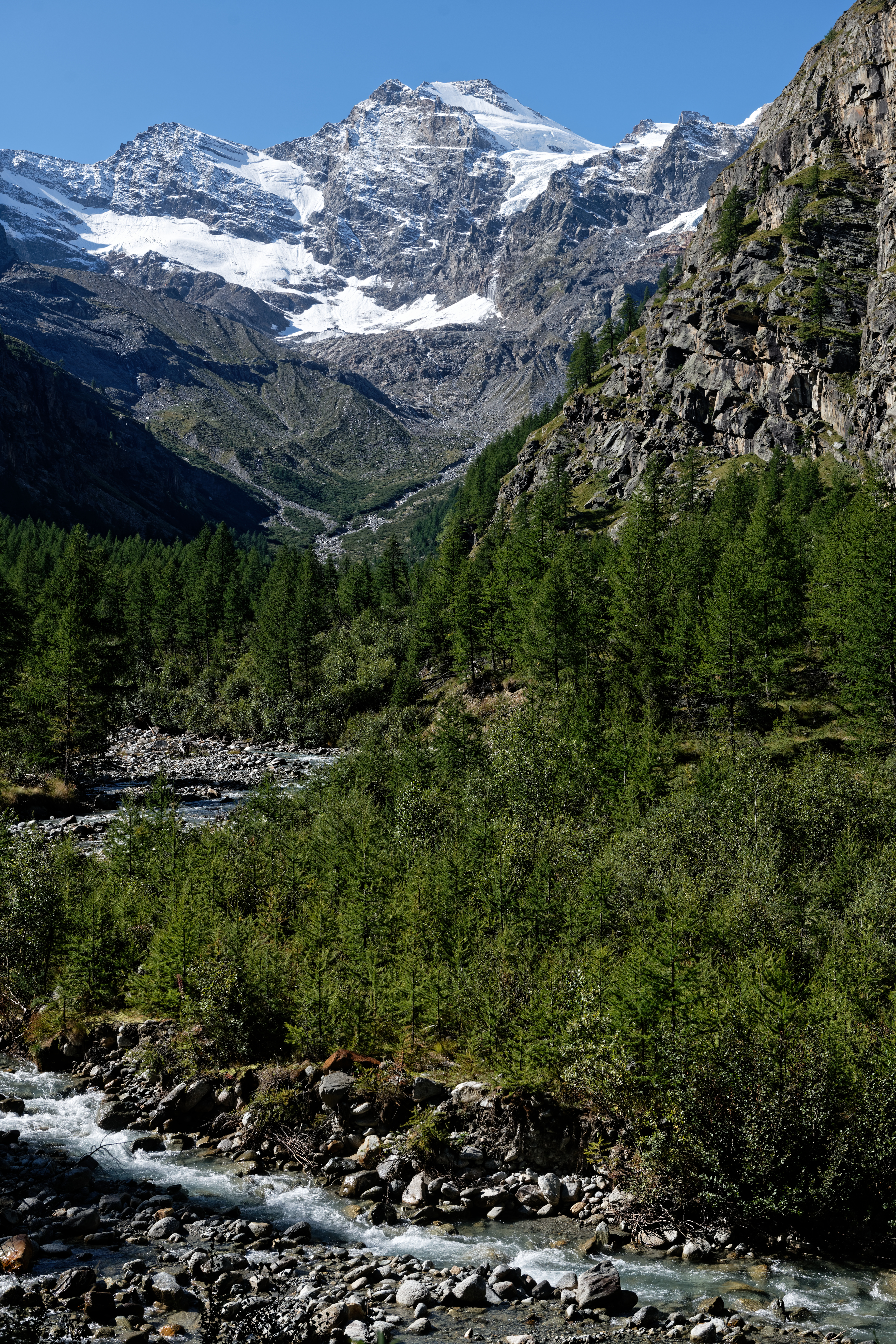 Gran Paradiso from Valnontey in Valle d'Aosta, Italy.